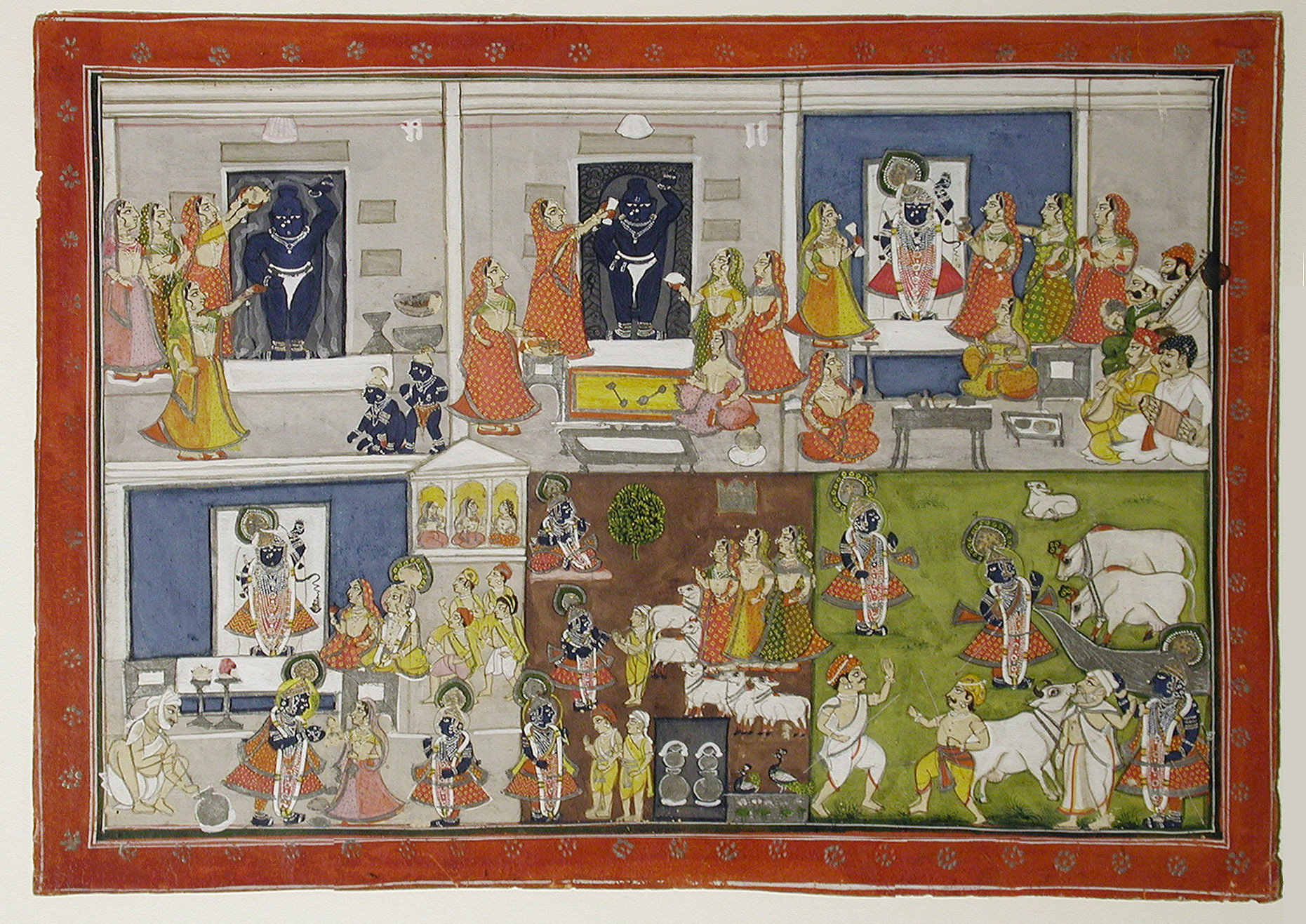 Creation Date: ca. 1840 Display Dimensions: 9 19/32 in. x 13 3/8 in. (24.4 cm x 34 cm) Credit Line: Edwin Binney 3rd Collection Accession Number: 1990.837 Collection: The San Diego Museum of Art